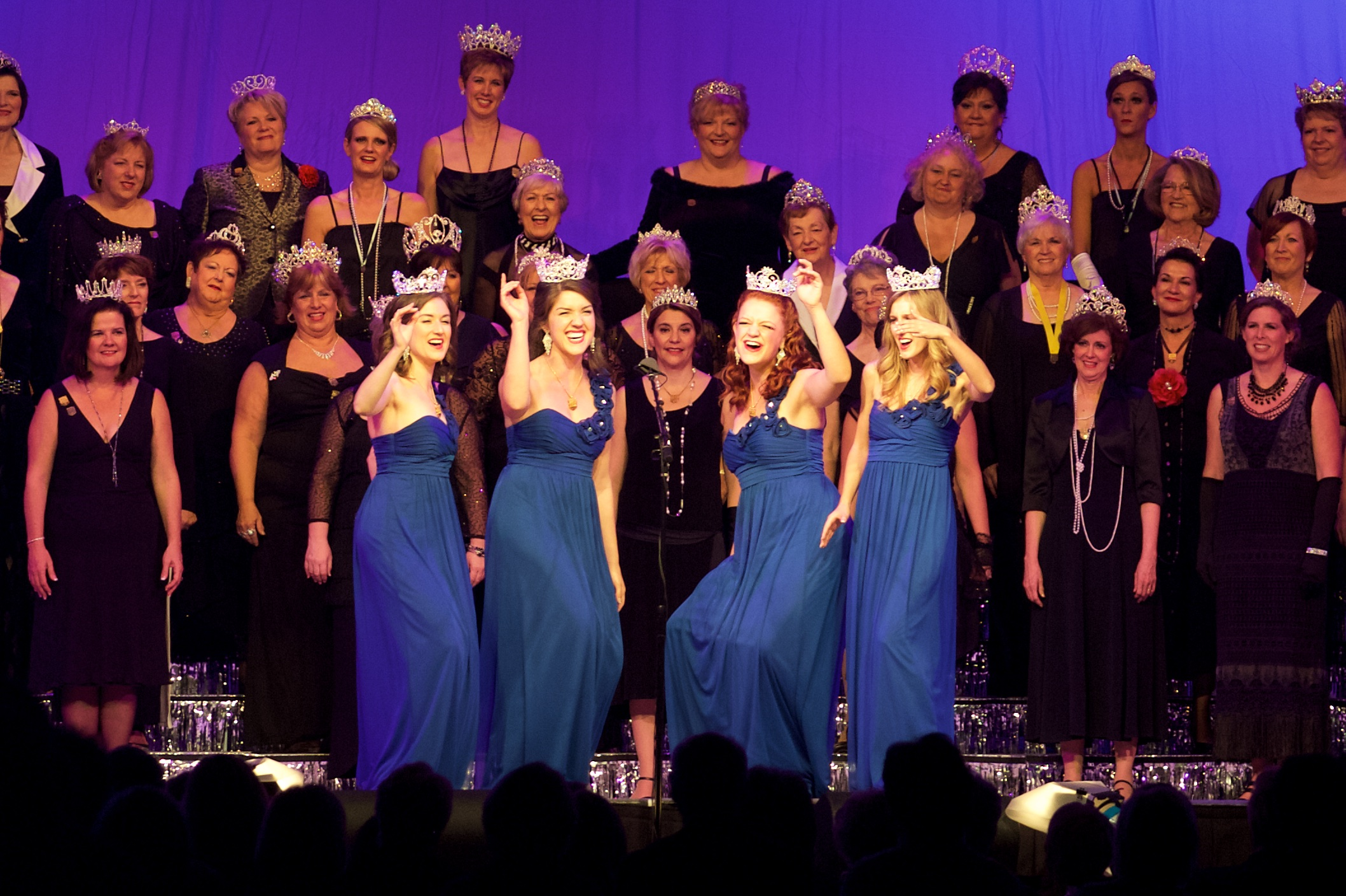 The reigning championship quartet, Love Notes, performing at the 2014 Sweet Adelines International "coronet club show" in Baltimore, Maryland